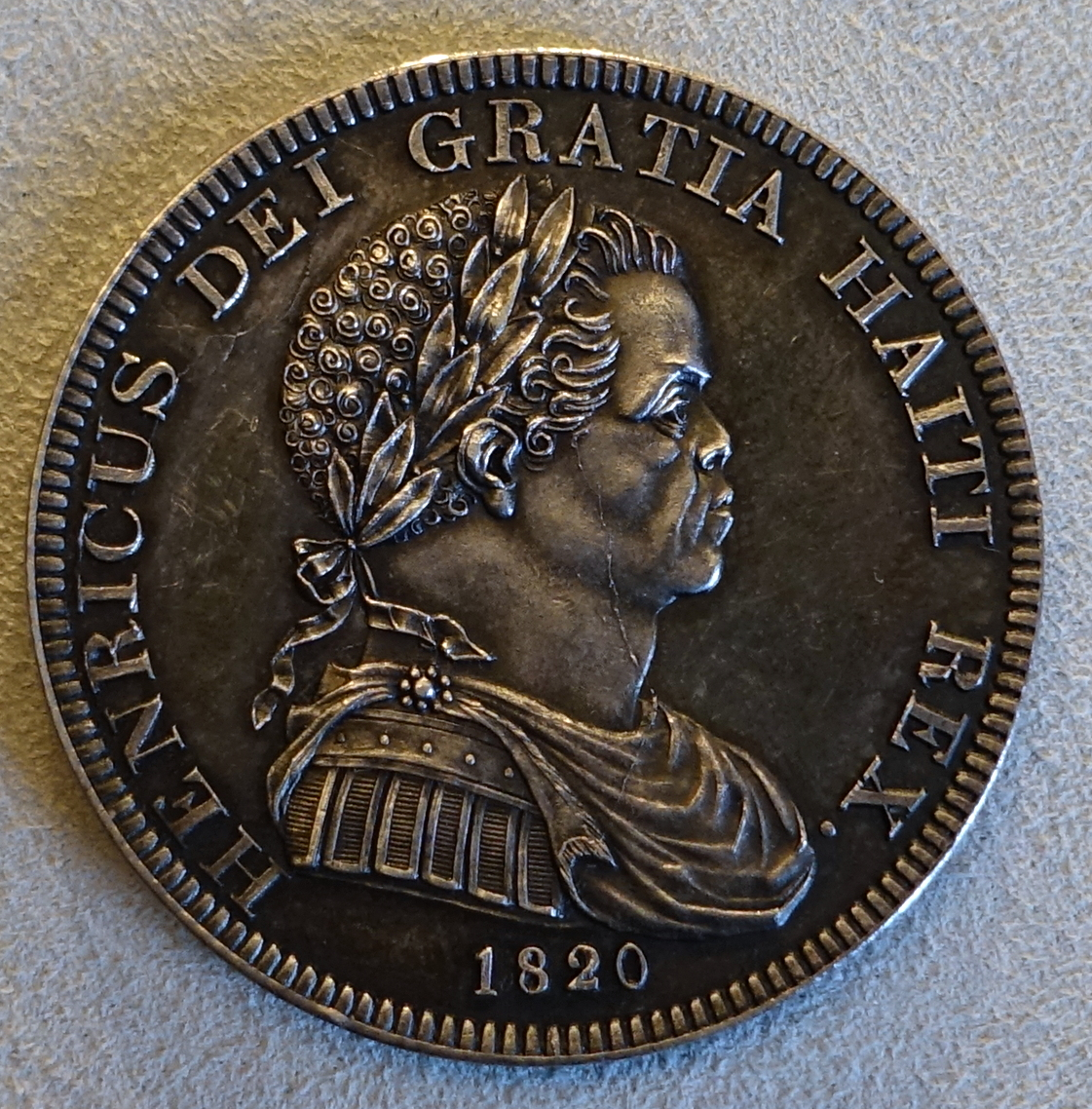 Exhibit in the Bode-Museum, Berlin, Germany. This work is in the public domain because the artist died more than 100 years ago.